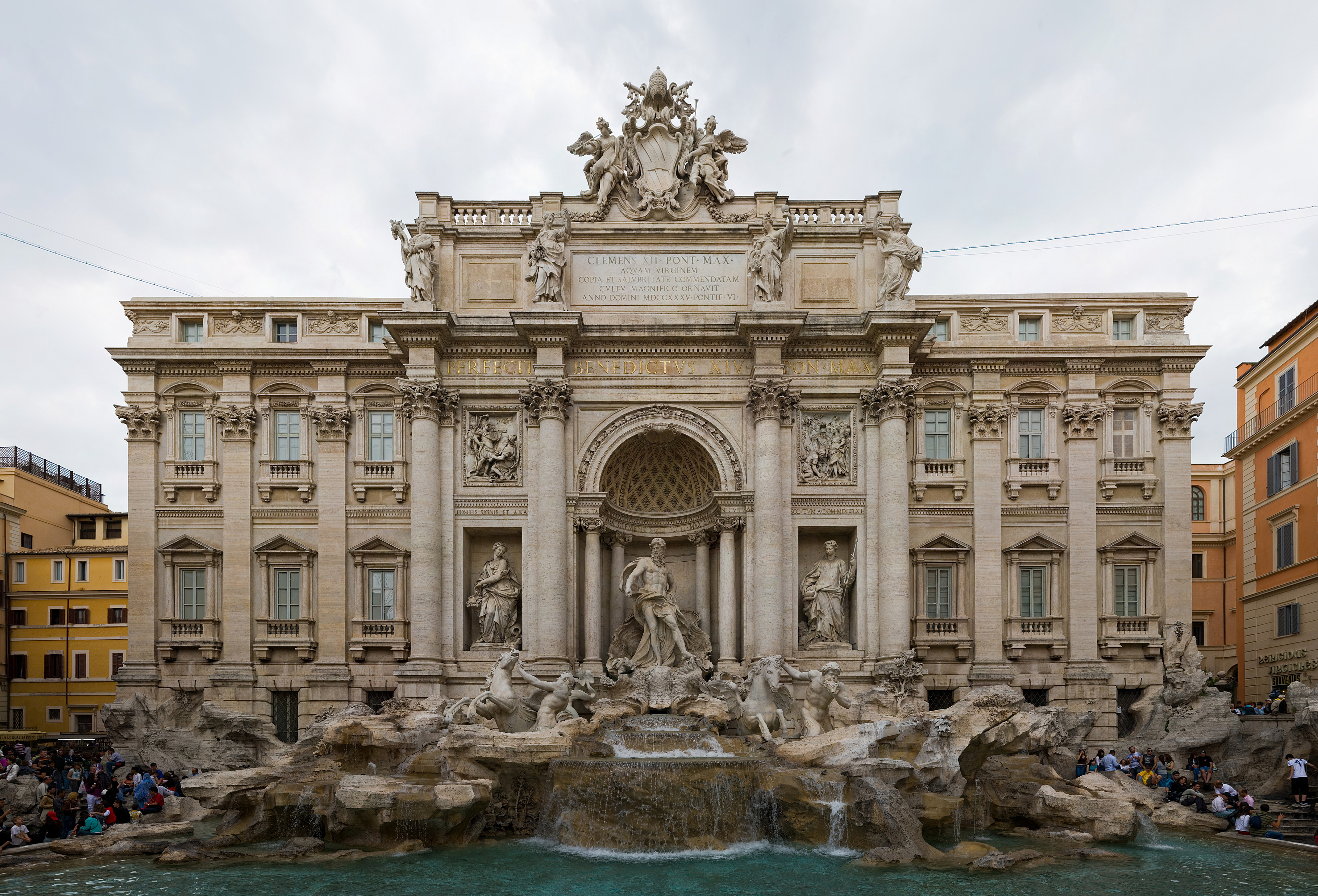 A 5x5 segment panorama taken by myself with a Canon 5D and 24-105mm f/4L IS lens. Stitched with rectilinear projection to keep lines straight.